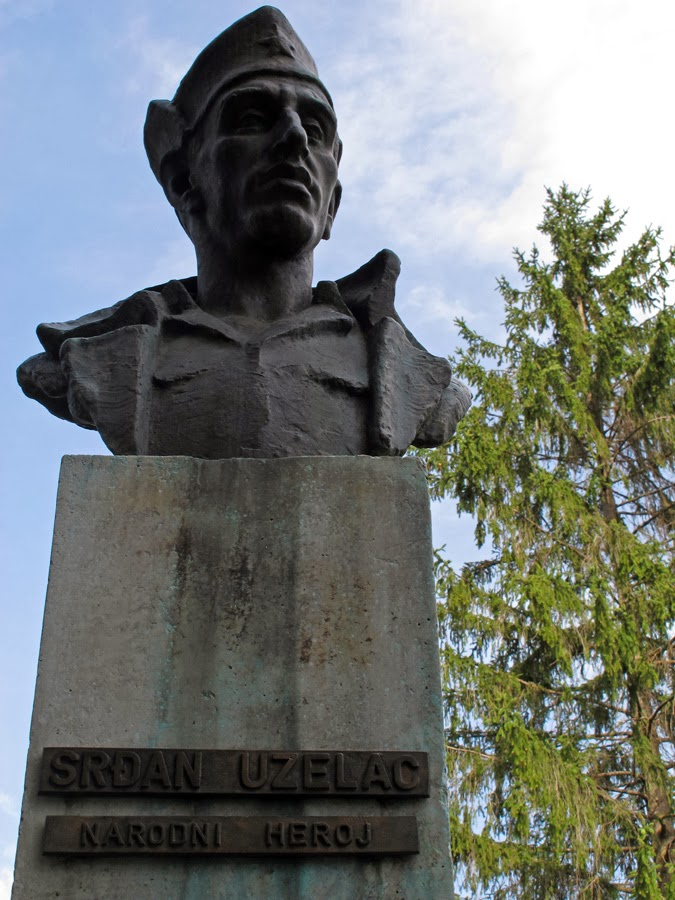 Bust of People's hero of Yugoslavia, Srđan Uzelac, in Vrbovsko.